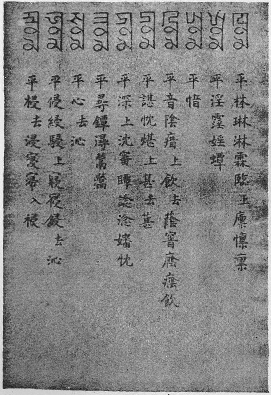 Across the top of the page are Old Mandarin syllables (disregarding tone) tsim, tshim, sim, zim, shim, zhim, ·im, xim, yim and lim, each written vertically in 'Phags-pa script. Beneath each syllable is a list of characters with that pronunciation, grouped by tone (平, 上, 去 and 入).